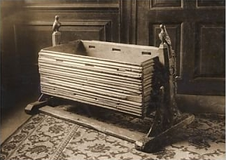 Photograph of the "Cradle of Henry V", formerly at Monmouth, donated by king George V to the London Museum (now Museum of London) in 1912